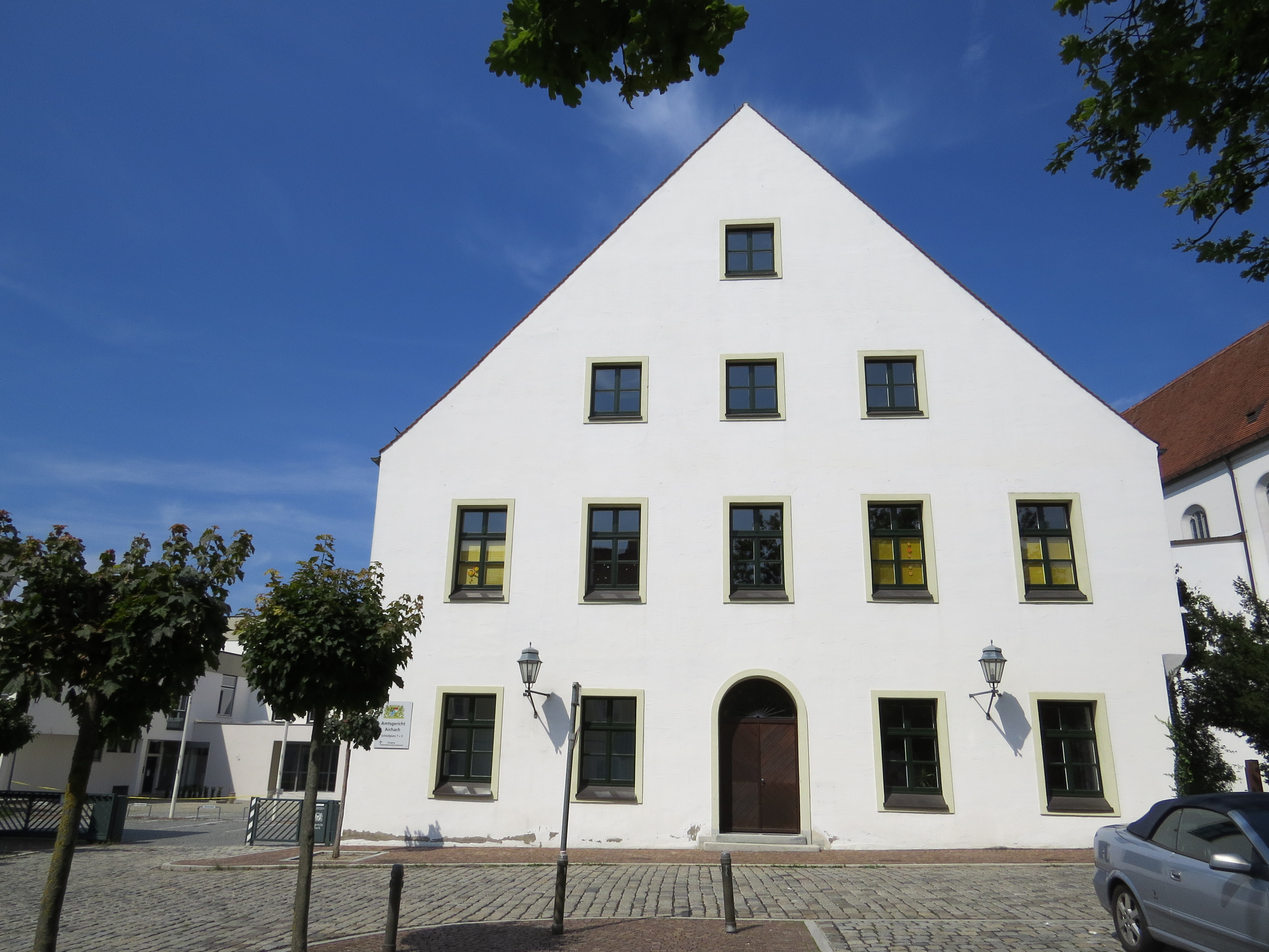 Amtsgericht Aichach